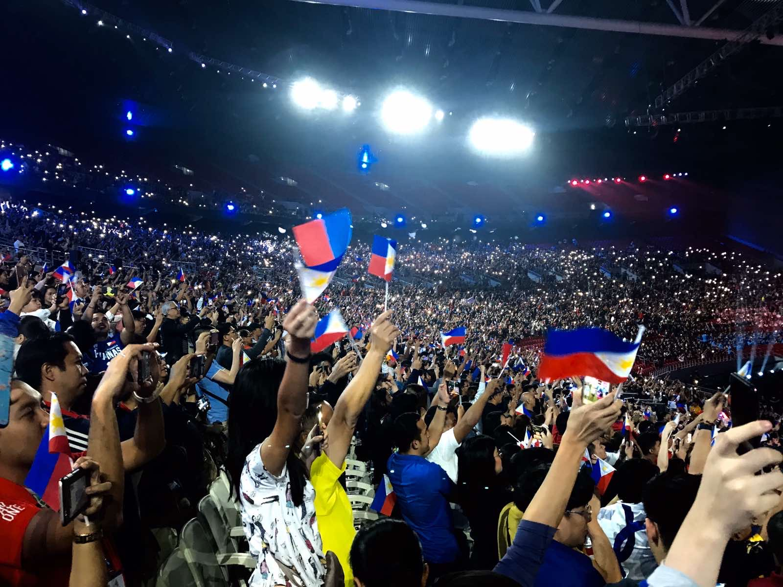 Thousands of Filipinos groove, cheer and wave their flags in support to the Philippine team who will compete in the 30th Southeast Asian Games. (Mar Jay Delas Alas/PIA 3)